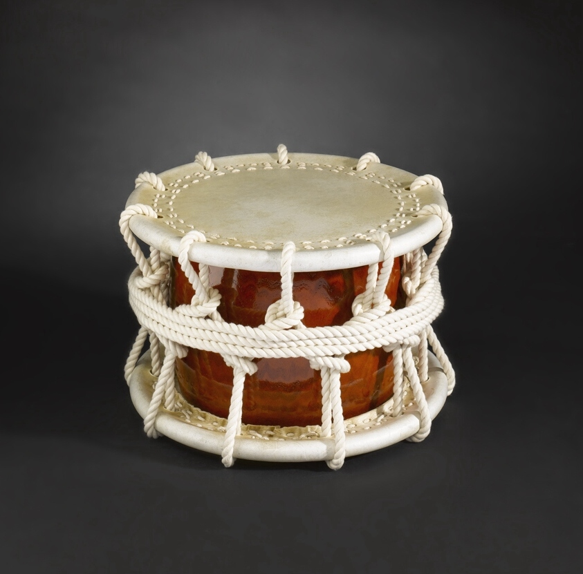 Traditionell japanese Taiko drum with rope Tension "Shime-Daiko" Traditionell japanische Taiko trommel mit Seilspannung- "Shime-Daiko"